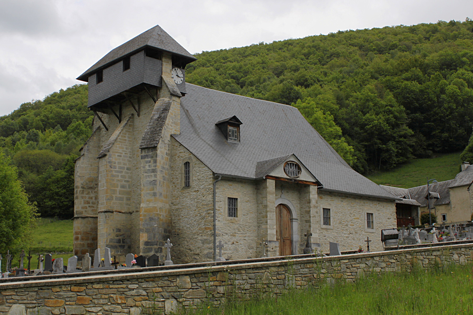 The church at Asque, Hautes-Pyrénées, showing the bell gable